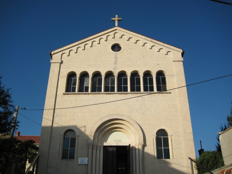 St. Anthony church, Crikvenica